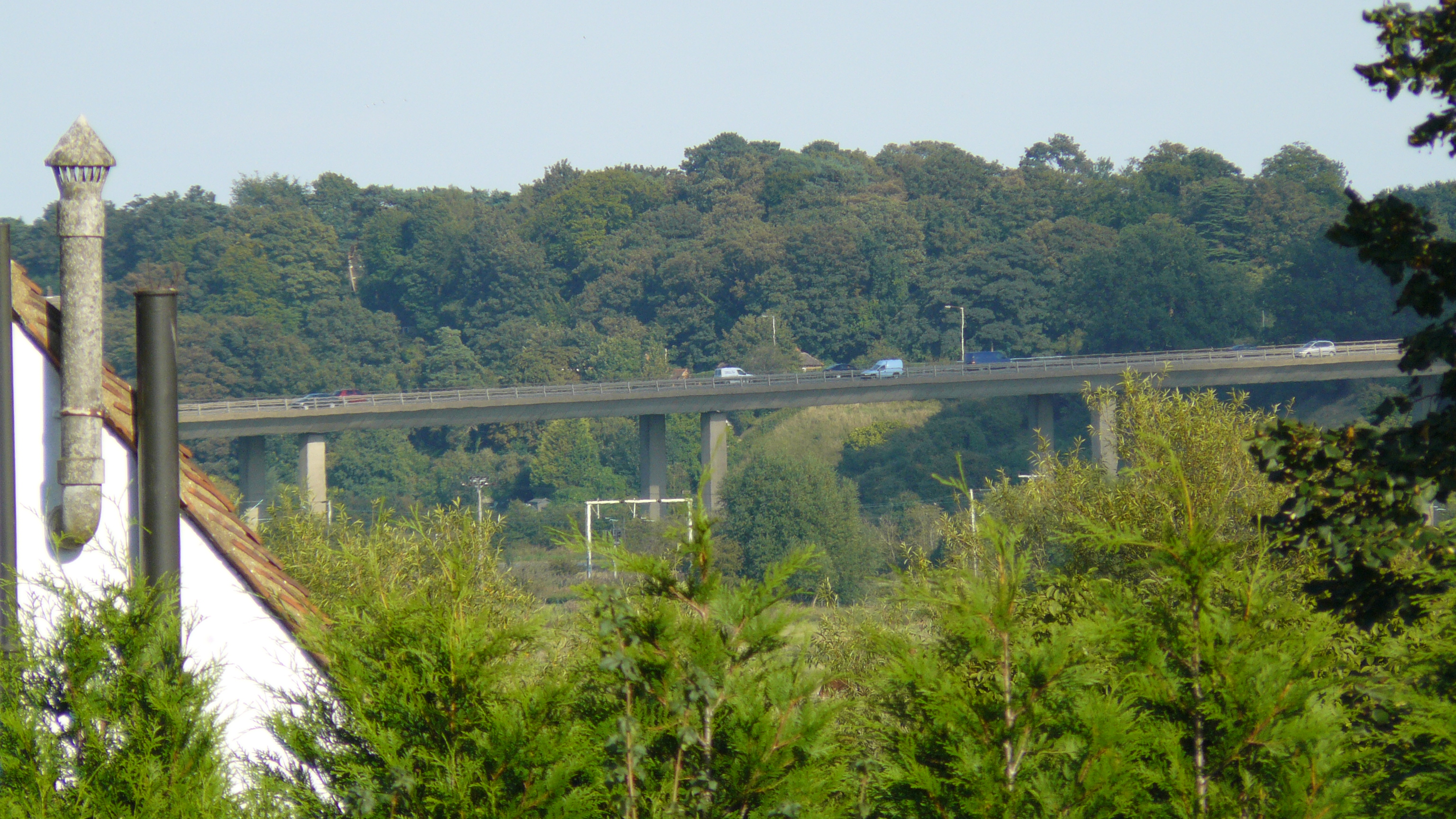 Author: Jamsta (talk) 18:25, 12 December 2007 (UTC)